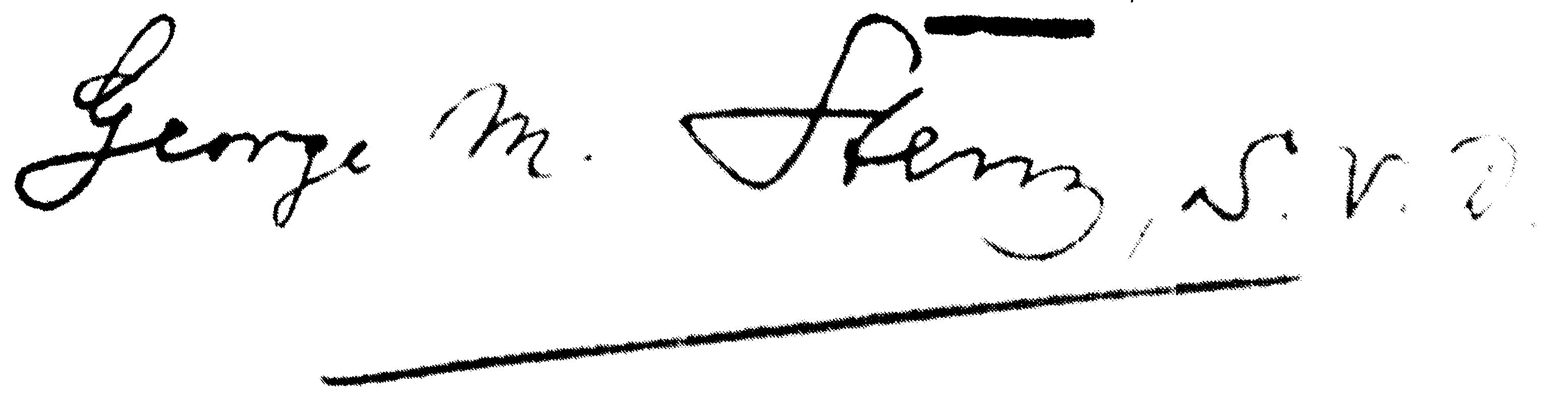 Photo of the signature of Georg Maria Stenz